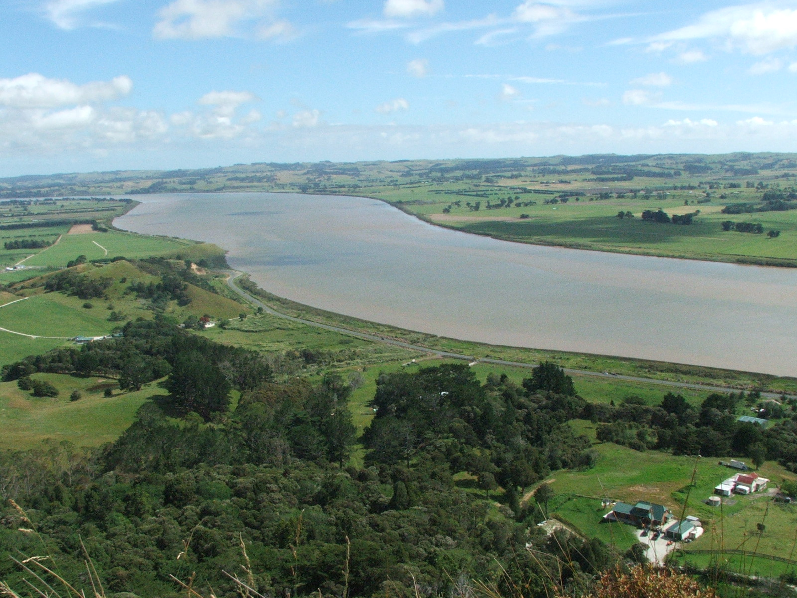 The Wairoa River, in Northland, New Zealand